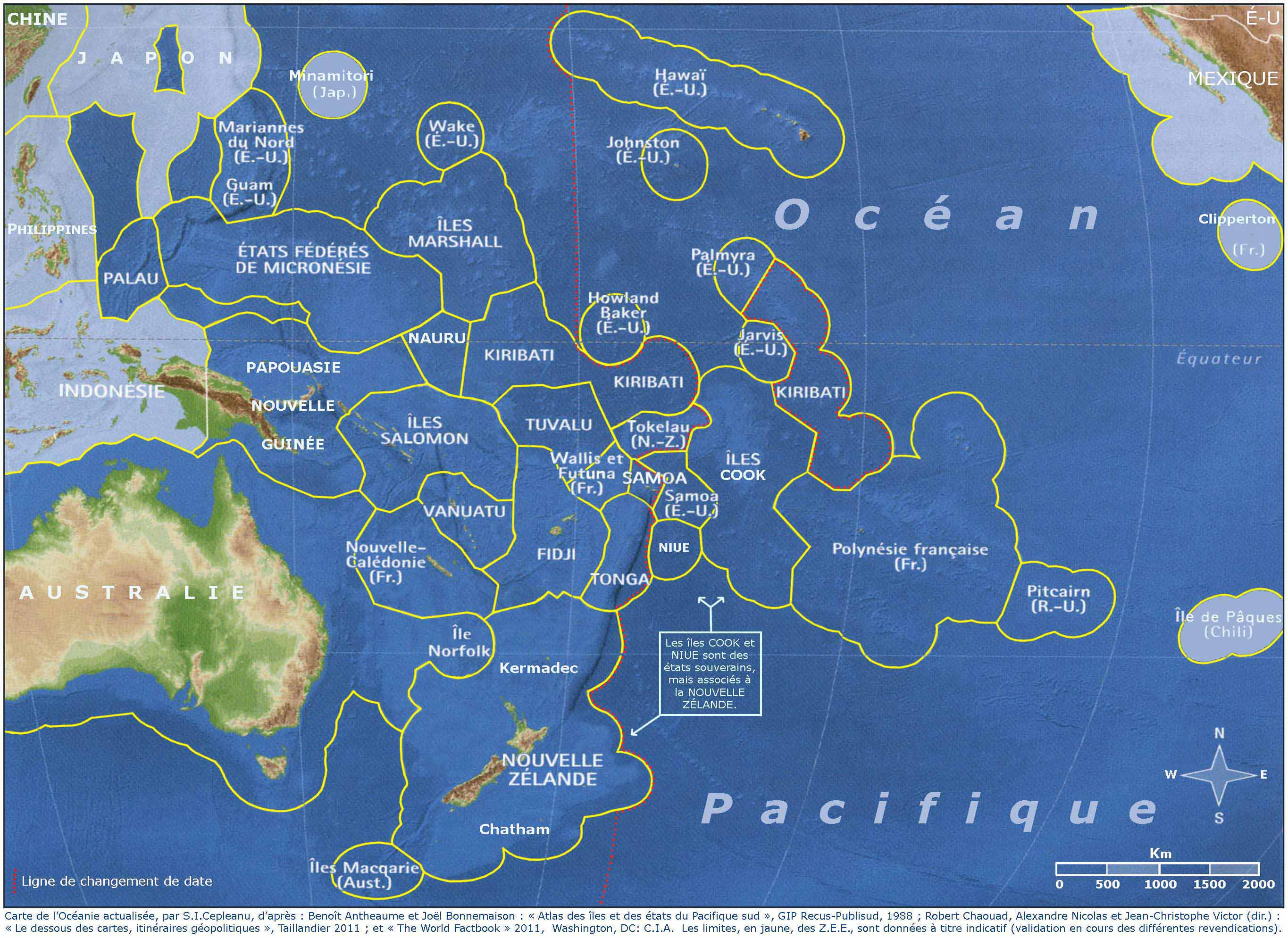 Map in french of the Pacific Community (EEZ in deep blue).